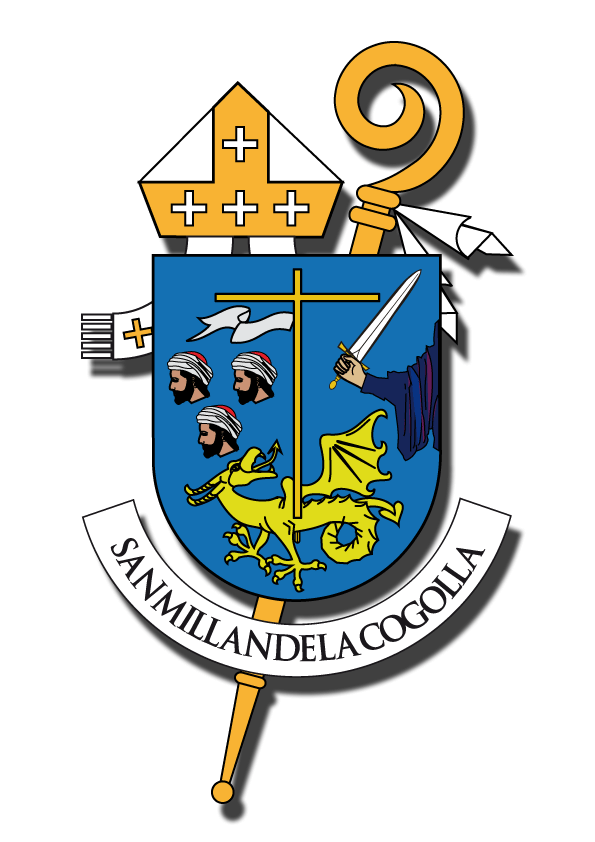 Coats of arms. Abbey San Millan de la Cogolla. La Rioja. Spain